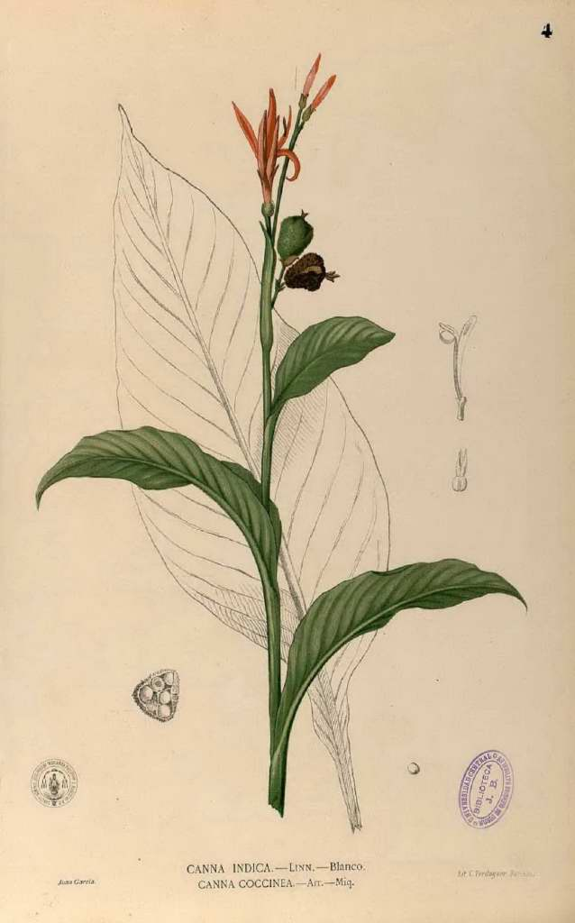 Canna indica Plate from book